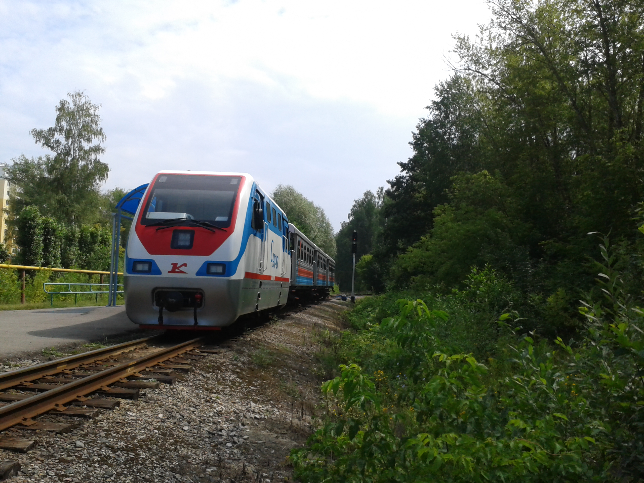 Penza Children's railway